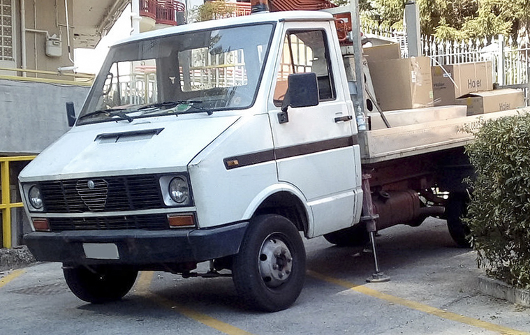 Alfa Romeo AR8 Camioncino, modello prodotto da Iveco, si tratta del Daily venduto a marchio Alfa Romeo